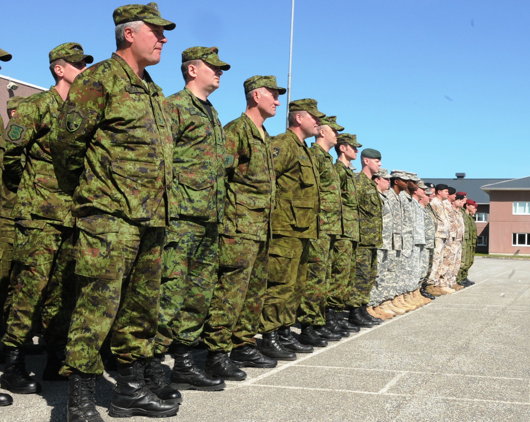 Soldiers representing eight nations stand in formation for the Tapa Estonia closing ceremony for Saber Strike 2012. Saber Strike 2012 is a multinational, tactical field training exercise that involves personnel from the U.S. Army’s 2nd Cavalry Regiment, Pennsylvania National Guard, 21st Theater Sustainment Command, the 4th U.S. Marine Division, the 127th Wing of the Michigan Air National Guard, Estonian, Latvian, and Lithuanian armed forces, with contingents from Canada , Finland, France and the U.K. The exercise, led by U.S. Army Europe, is designed to enhance joint and combined interoperability between the U.S. Army and partner nations, and will help prepare participants to operate successfully in a joint, multinational, interagency, integrated environment. (US Army photo by Staff Sgt. Michael Taylor)